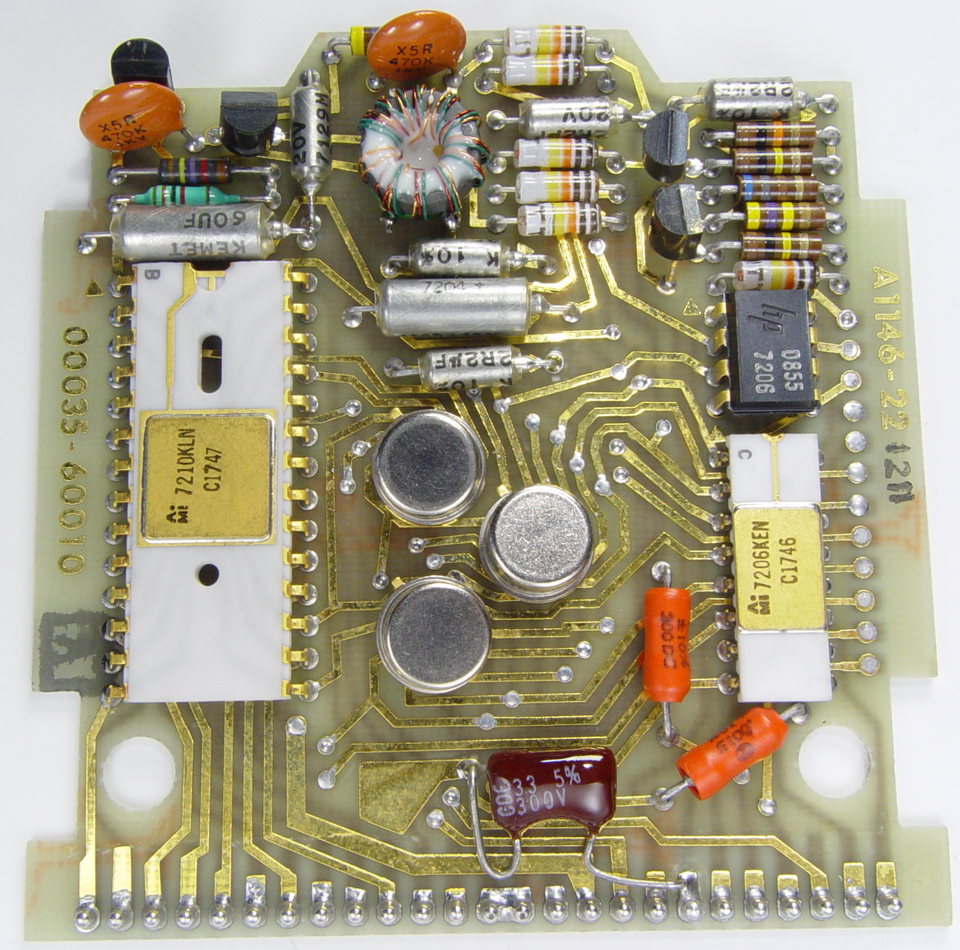 Main board of HP 35 pocket calculator